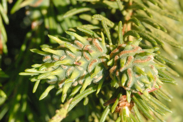 Sacchiphantes abietis from Commanster, Belgian High Ardennes .